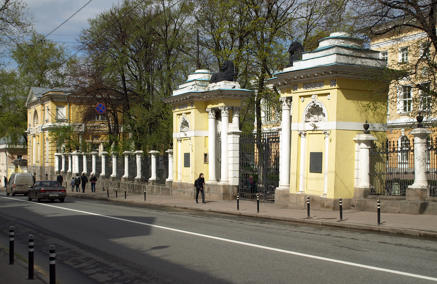 Yauzskaya Hospital, Moscow. Originally built in 1790s as Batashov Palace, converted to a public hospital in 1878